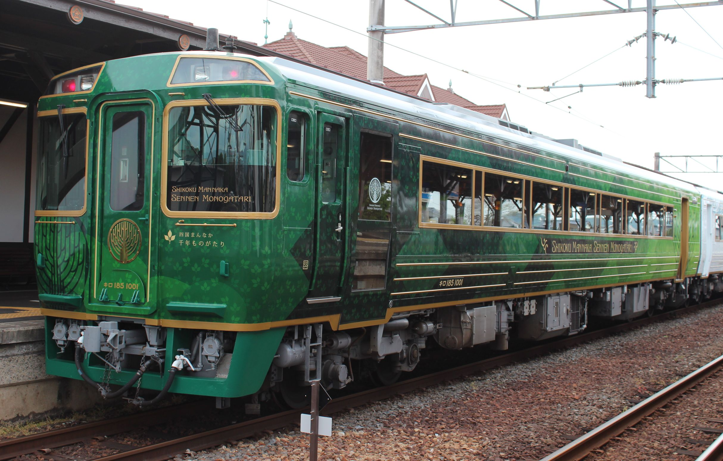 Car KiRo 185-1001 (Car 1) of the JR Shikoku 185 series "Shikoku Mannaka Sennen Monogatari" DMU excursion train at Kotohira Station in Kagawa Prefecture, Japan